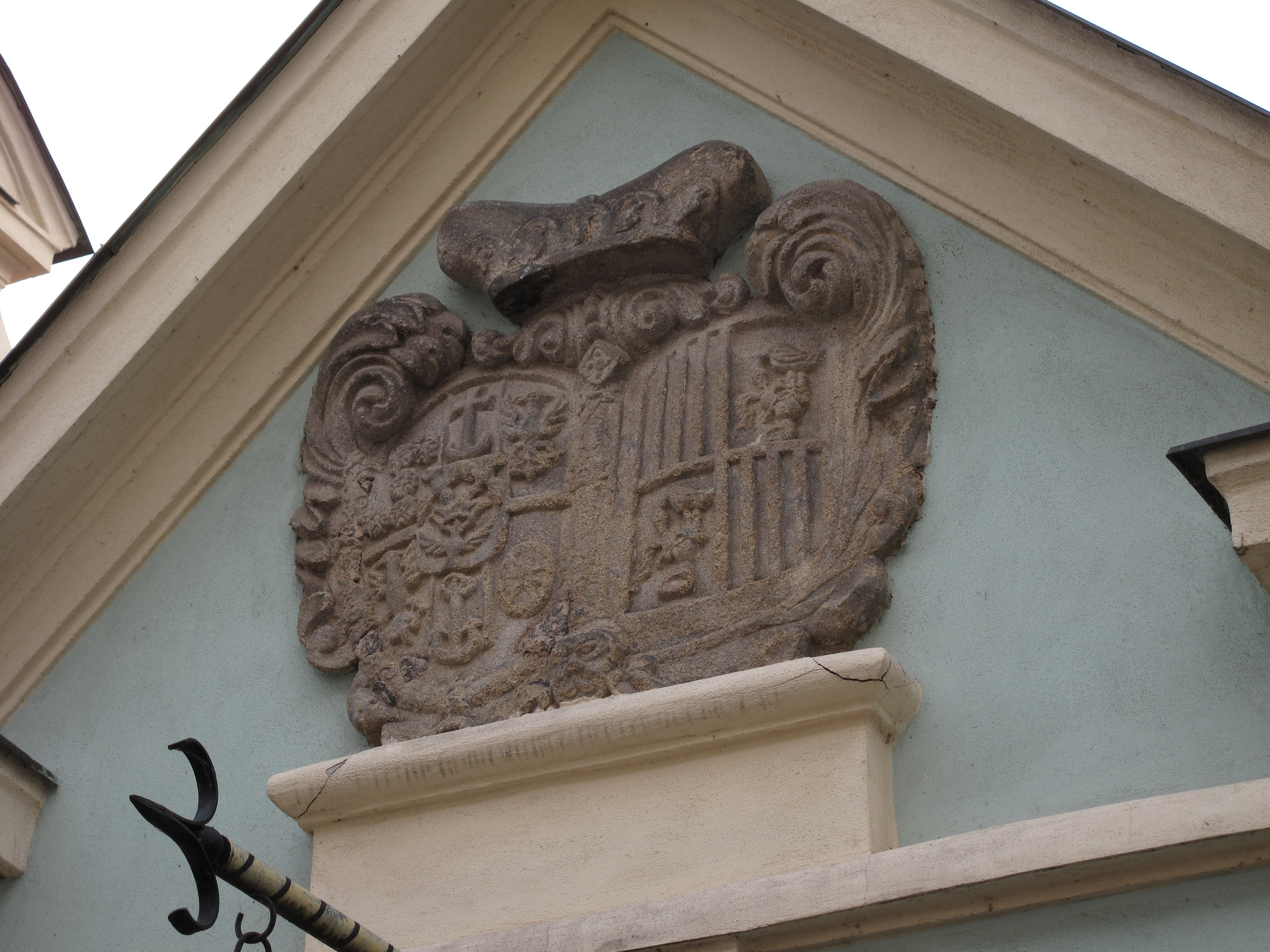 Latrán Street, Český Krumlov, Czech Republic.